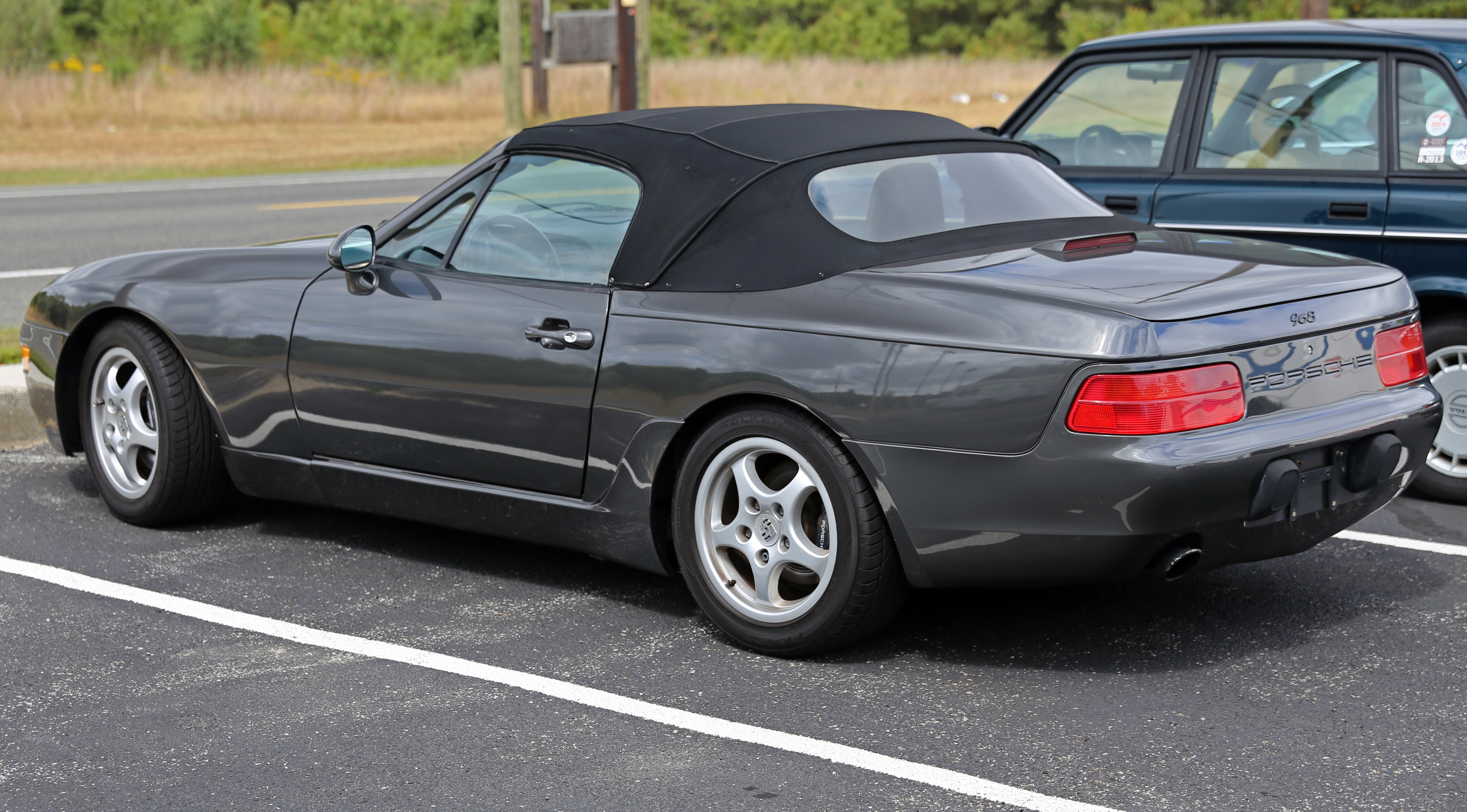 A 1993 Porsche 968 Cabriolet, six-speed manual in US (federalized) specs. For sale, at $16,900 which might be reasonable.